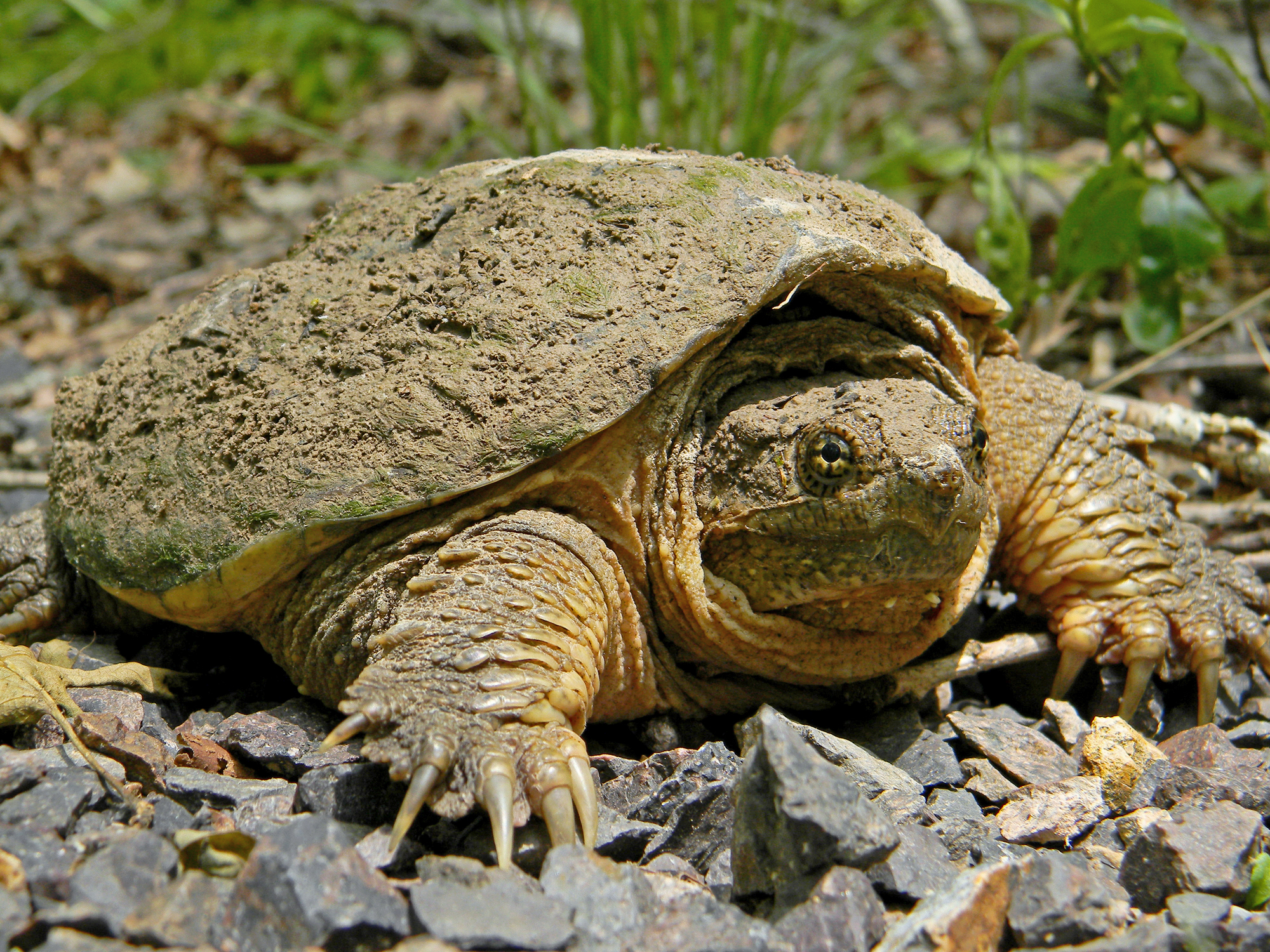 A common snapping turtle, photographed at Taum Sauk Mountain State Park.